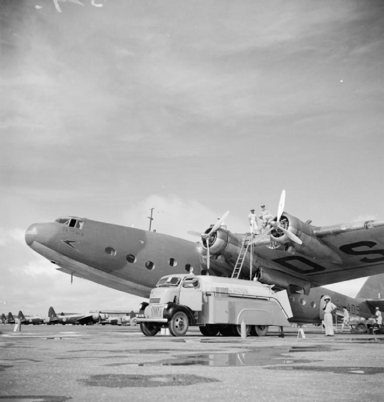 British Overseas Airways Corporation and Qantas, 1940-1945. Armstrong Whitworth Explorer Mark II, G-ADSV "Explorer", of BOAC is refuelled at Accra, Gold Coast.